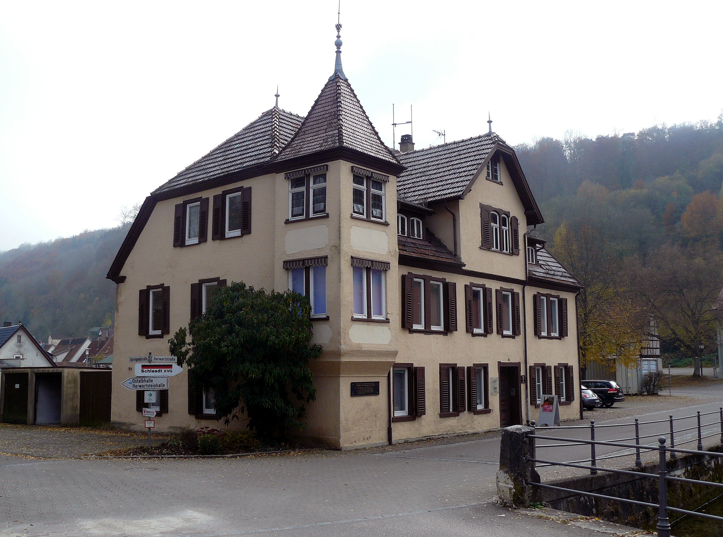 Georg-Elser-museum in Königsbronn